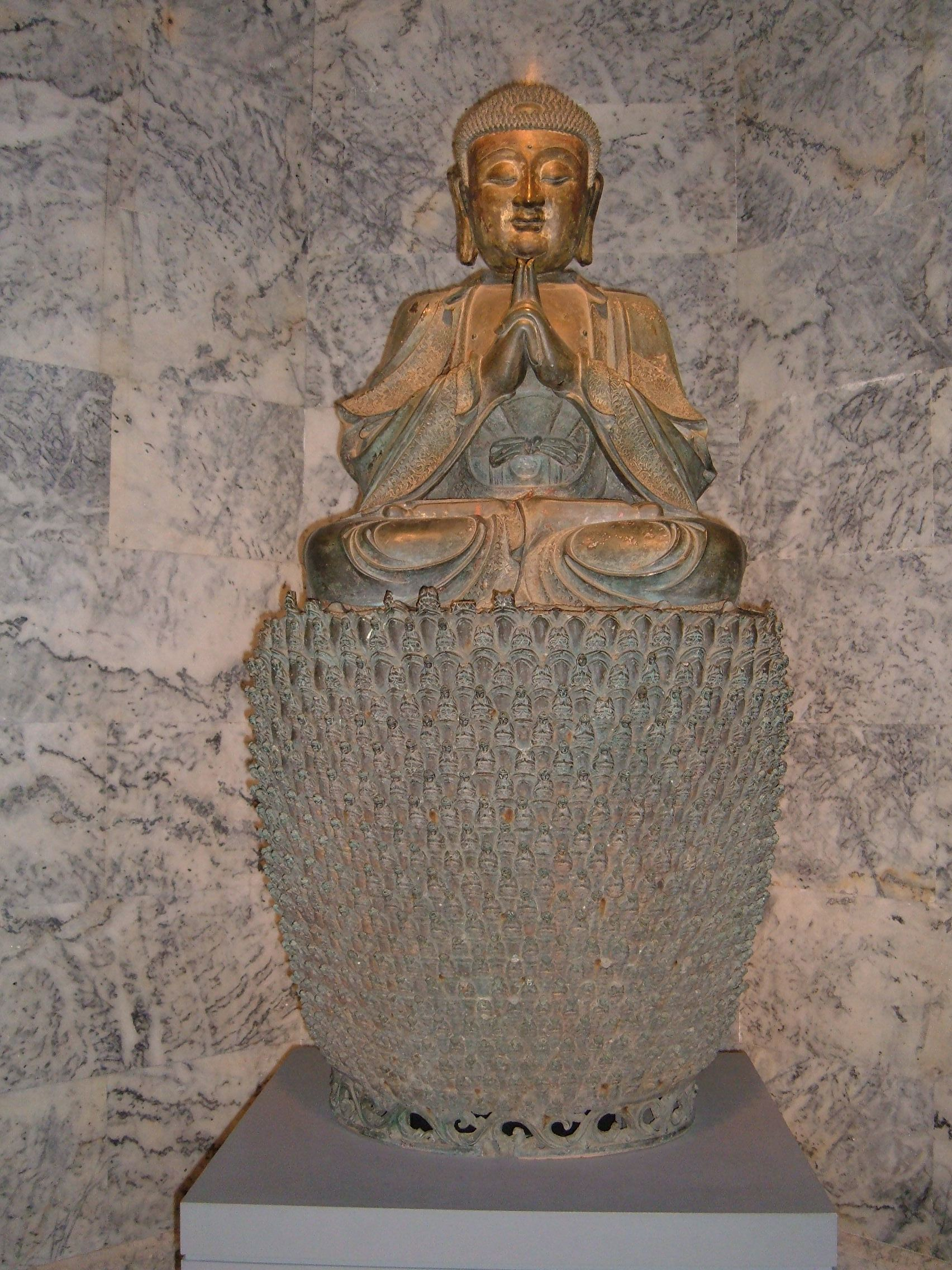 Copper alloy statue of Vairochana (Ming Dynasty) seated on a lotus on display at the Iris & B. Gerald Cantor Center for Visual Arts on the Stanford University campus in Stanford, California.